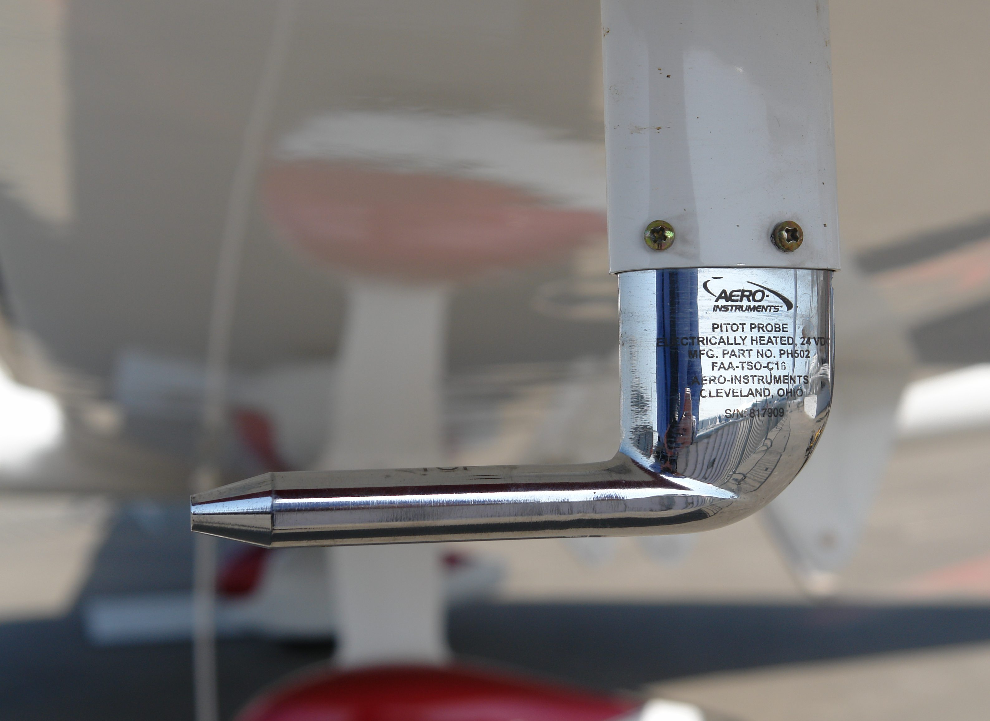 Pitot tubeEsperanto: Tuboj de Pitot